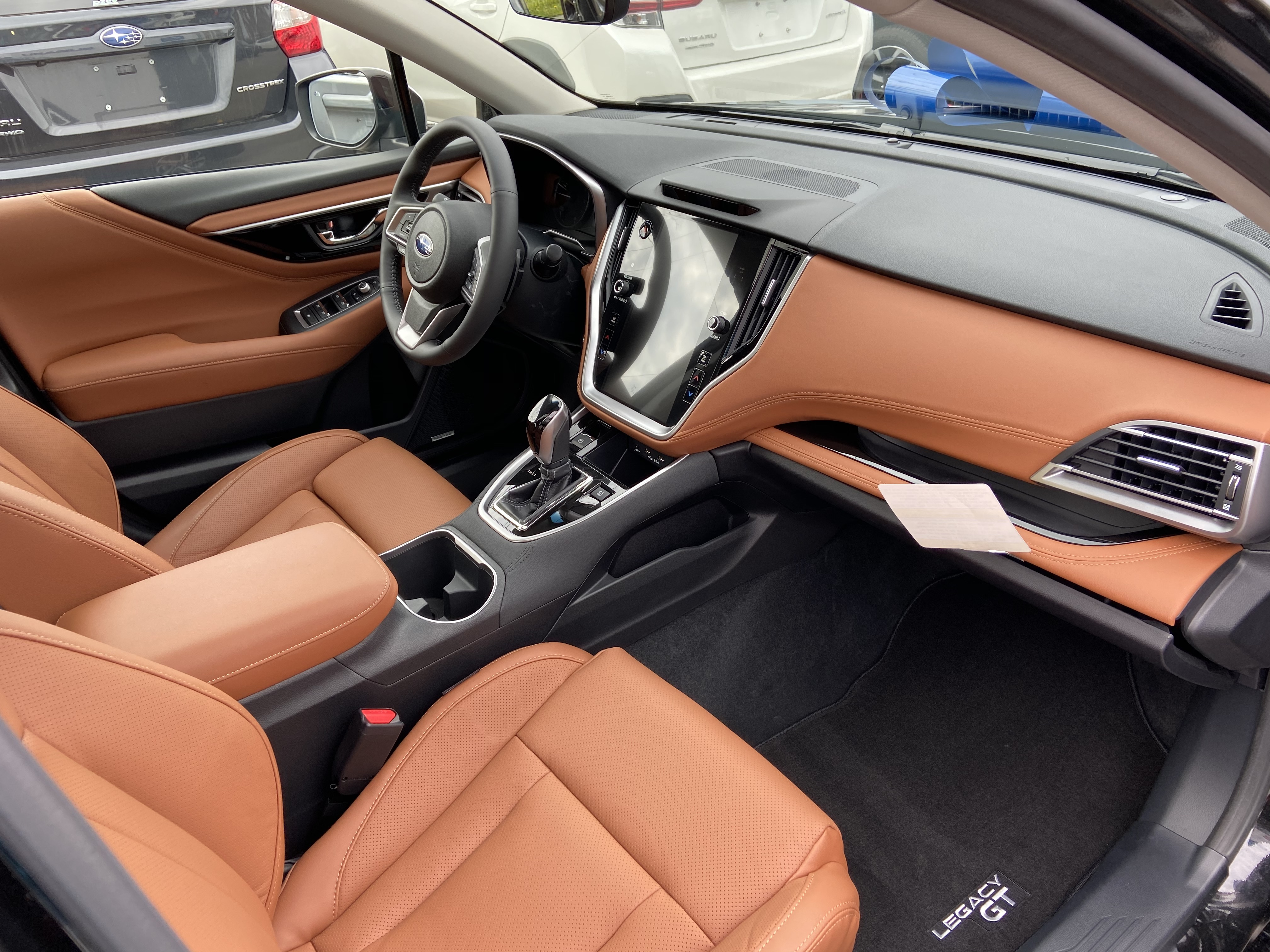 Nappa leather interior